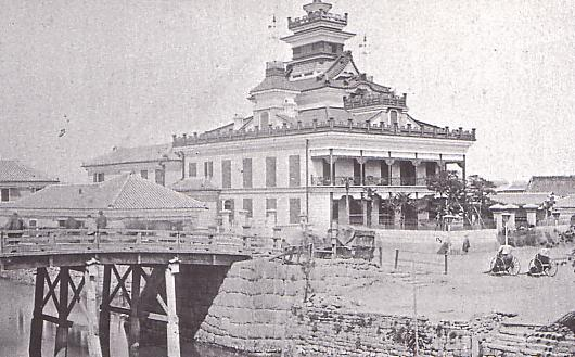 Dai-ichi Kokuritsu Ginko (First National Bank in Japan)